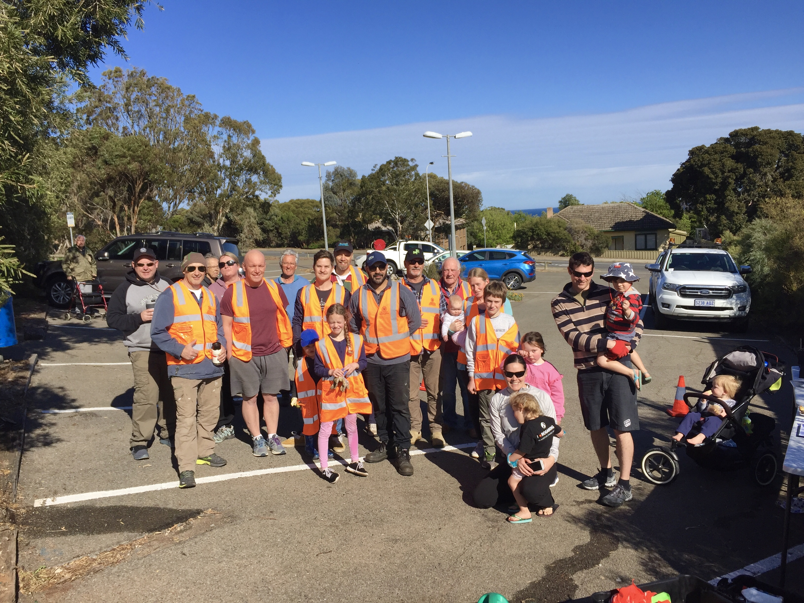 Marino Rocks station and gardens are cared for by our local volunteers